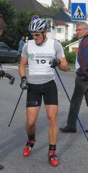 The Norwegian cross-country skier Jan Egil Andresen under Kirkebakken Grand Prix 2007 in Hamar, Norway.